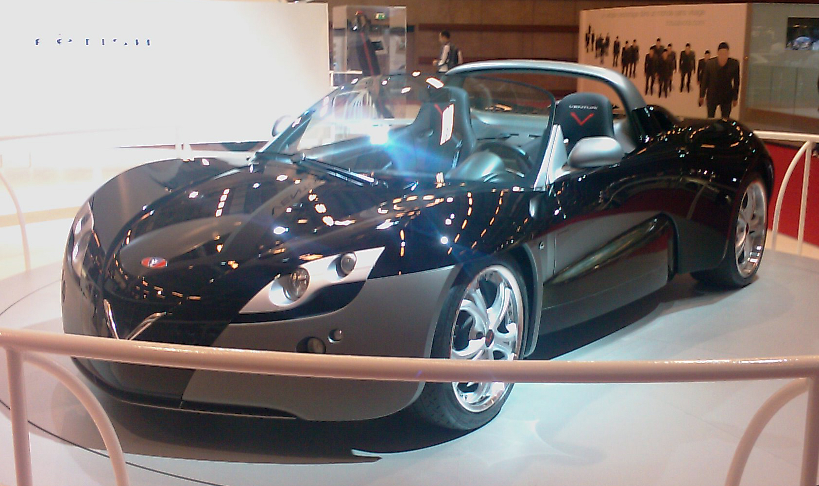 Venturi